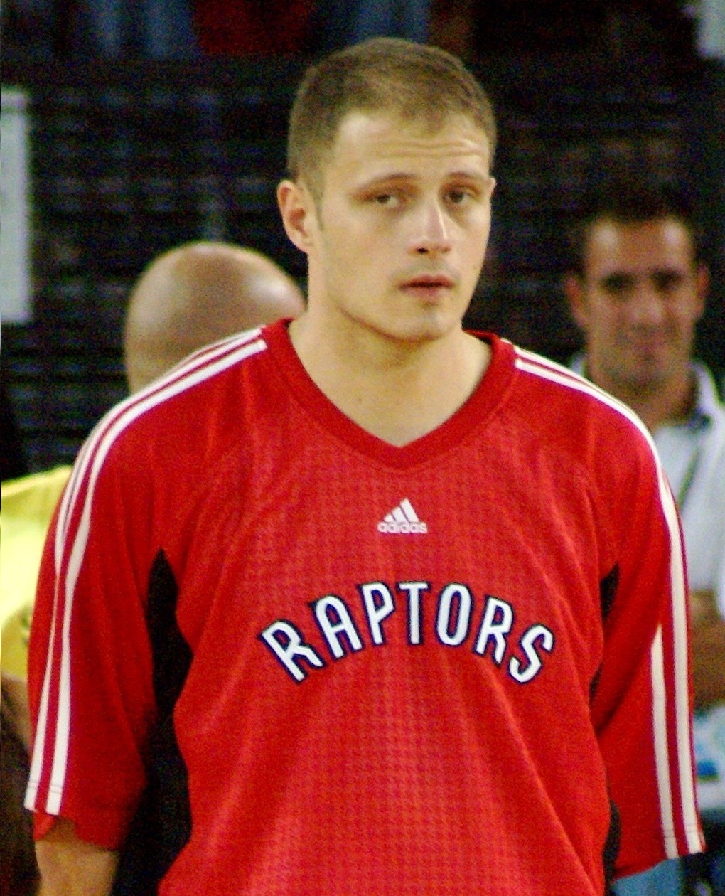 Rasho Nesterovič